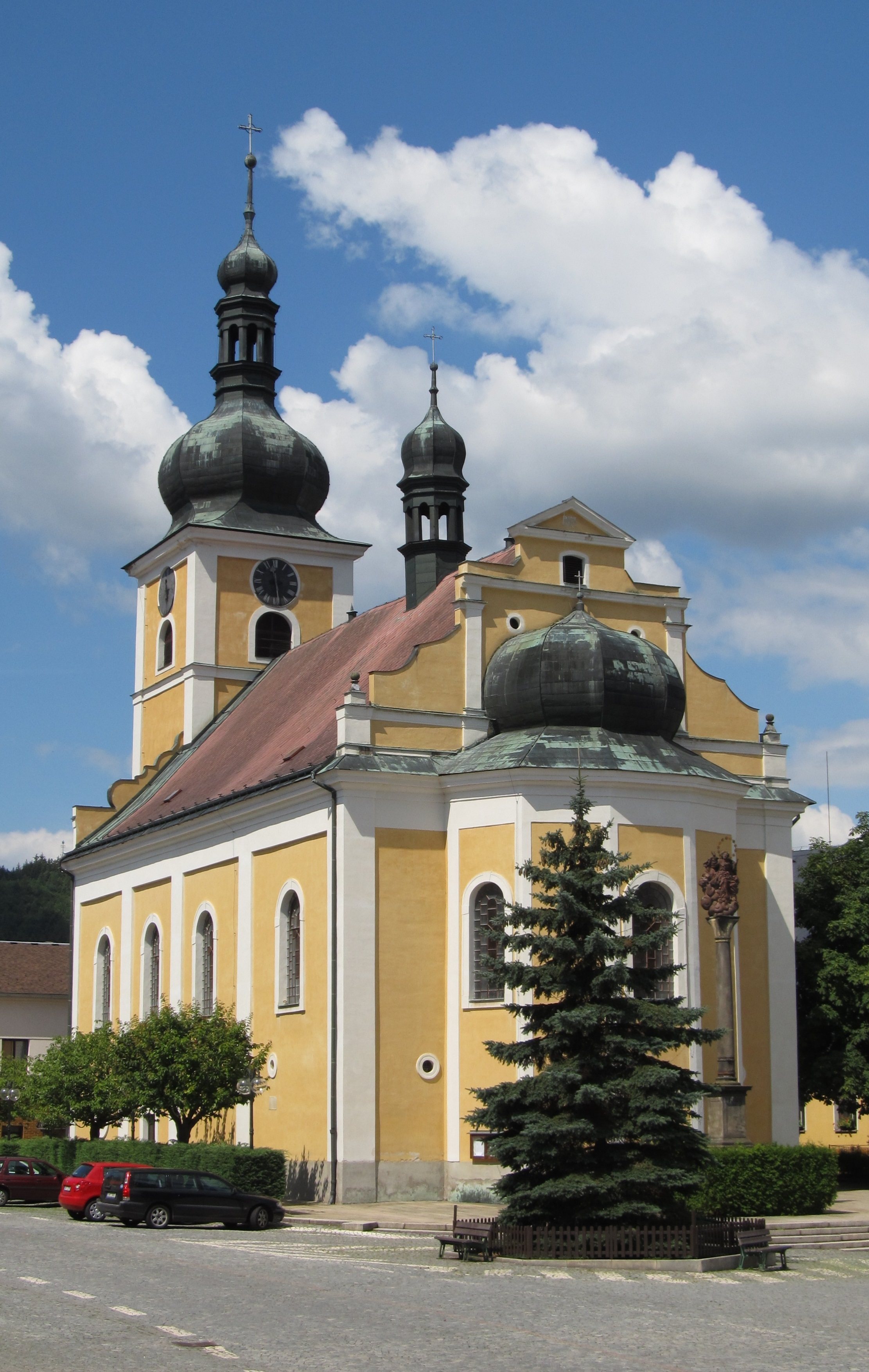 The Church of St. Jakub Větší (James the Greater/James the Great) in Úpice